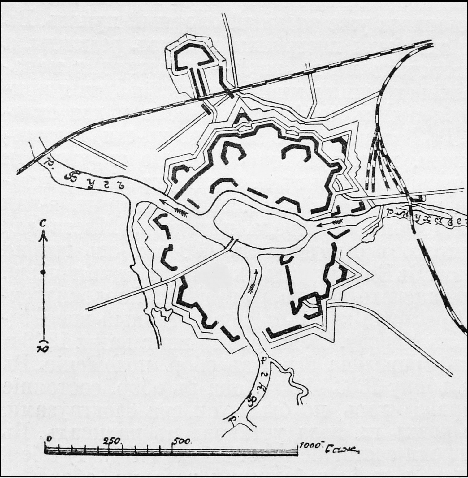 Plan of the Brest Fortress from 1910